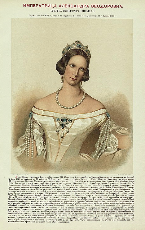 Alexandra Feodorovna (Charlotte of Prussia)